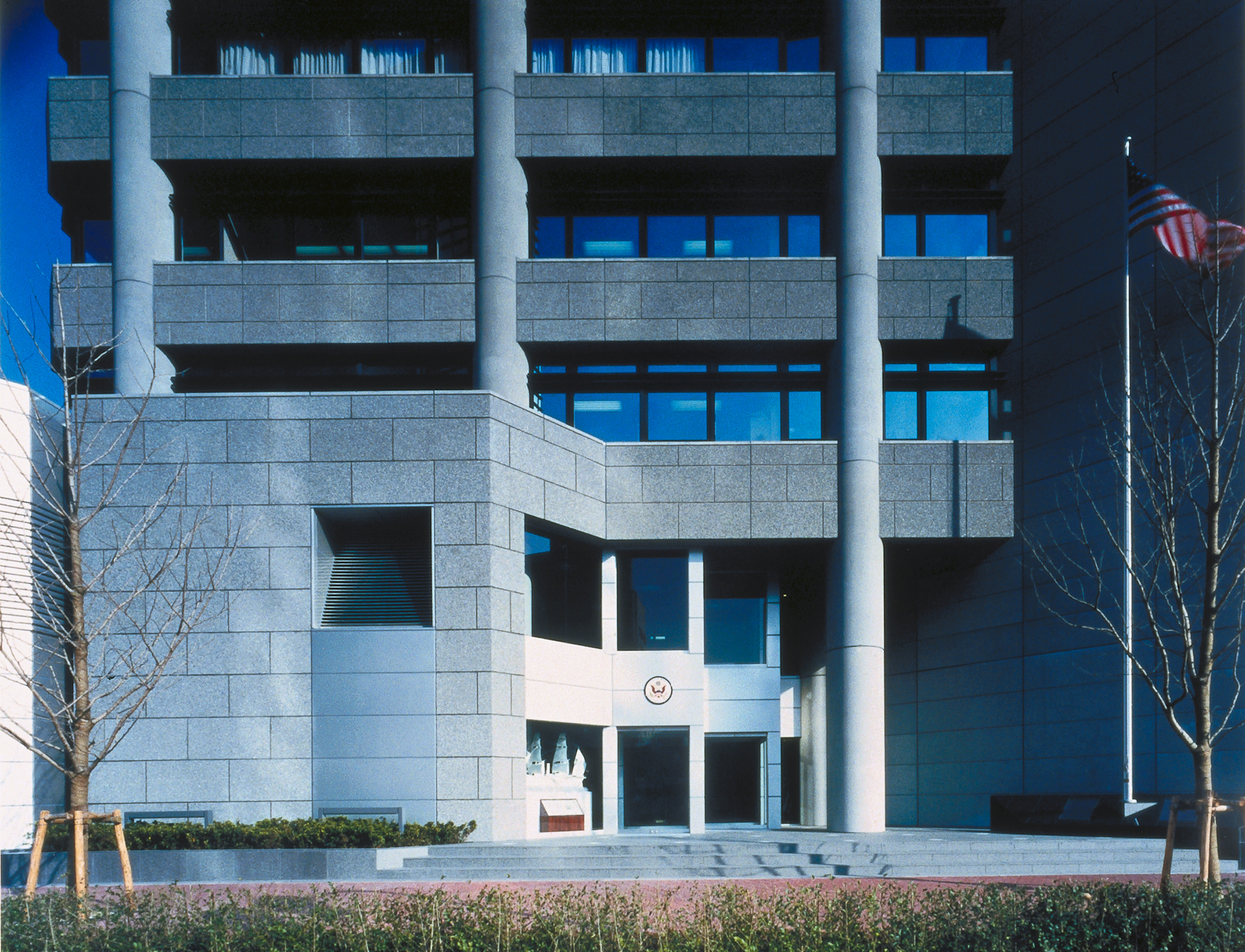 The original finding aid described this item as: Format: Slide Architect: Entrepreneur, 1987 Property Number: X 20033